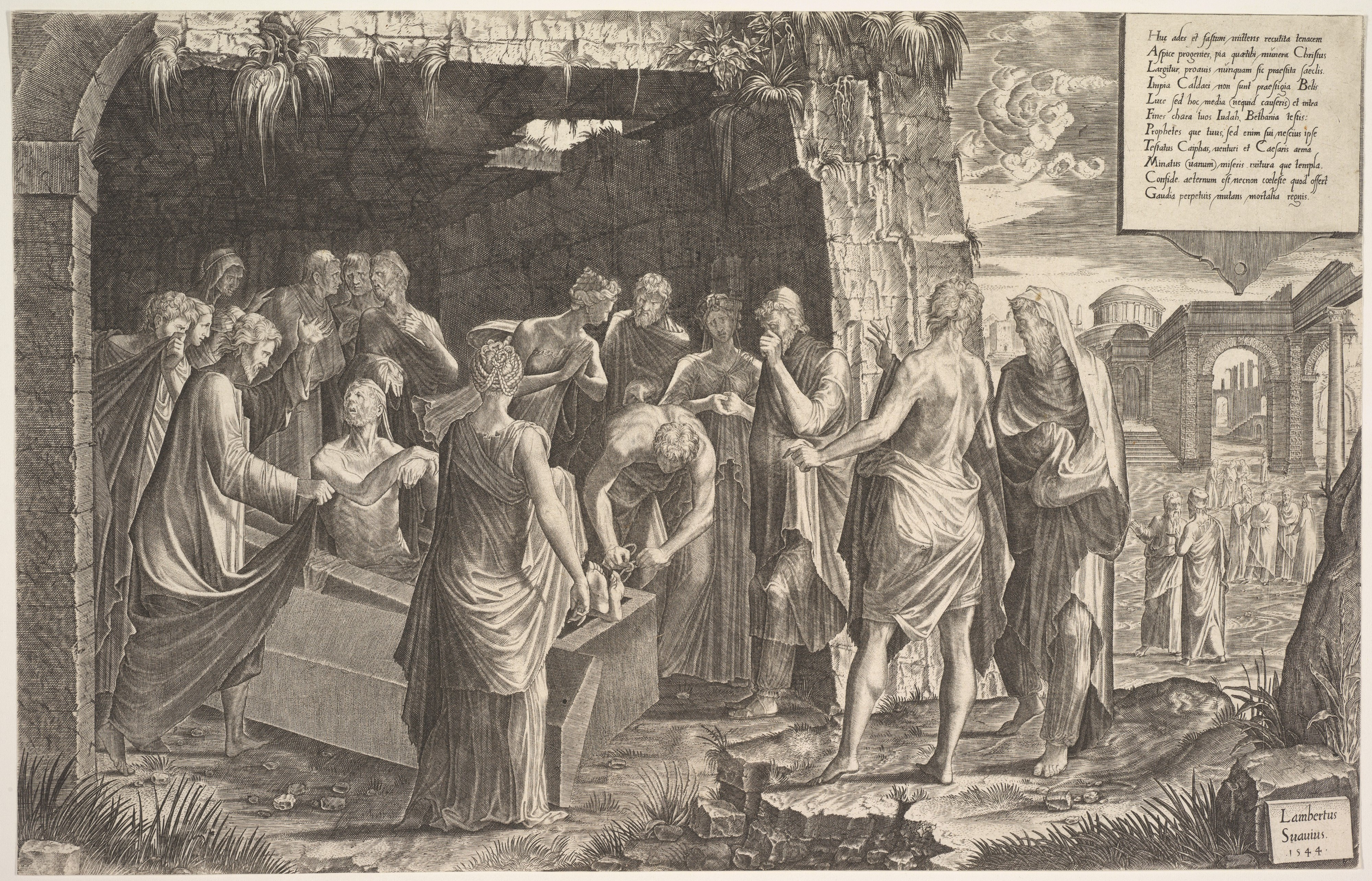 Print; Prints